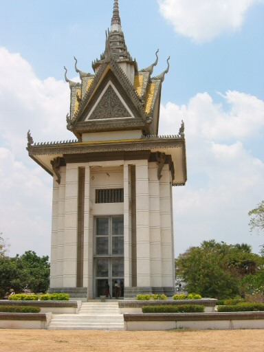 Memorial stupa at Choeung Ek.